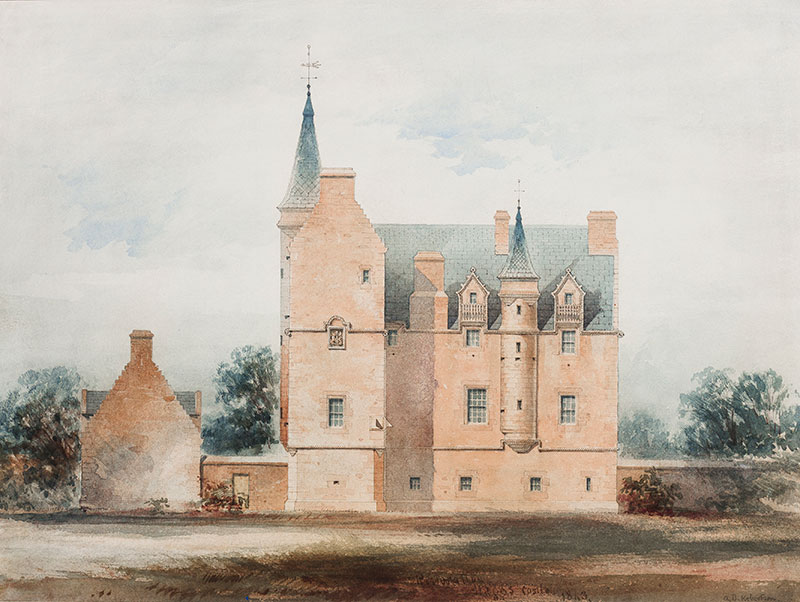 Offered for sale by Abbott and Holder in February 2020 when it was described as "Ink and watercolour. Inscribed ‘Restoration / Haggs Castle, 1843’ (unrealised). Signed. Provenance: Sir John Stirling-Maxwell of Pollok (1866-1956). 12.5x16.5 inches."